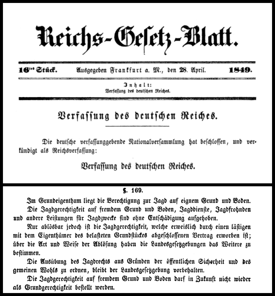 § 169 - Right to hunt - Frankfurt Constitution of the German Reich 1849